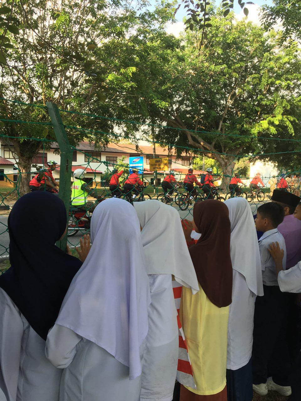 Larian Merdeka Anggota Tentera